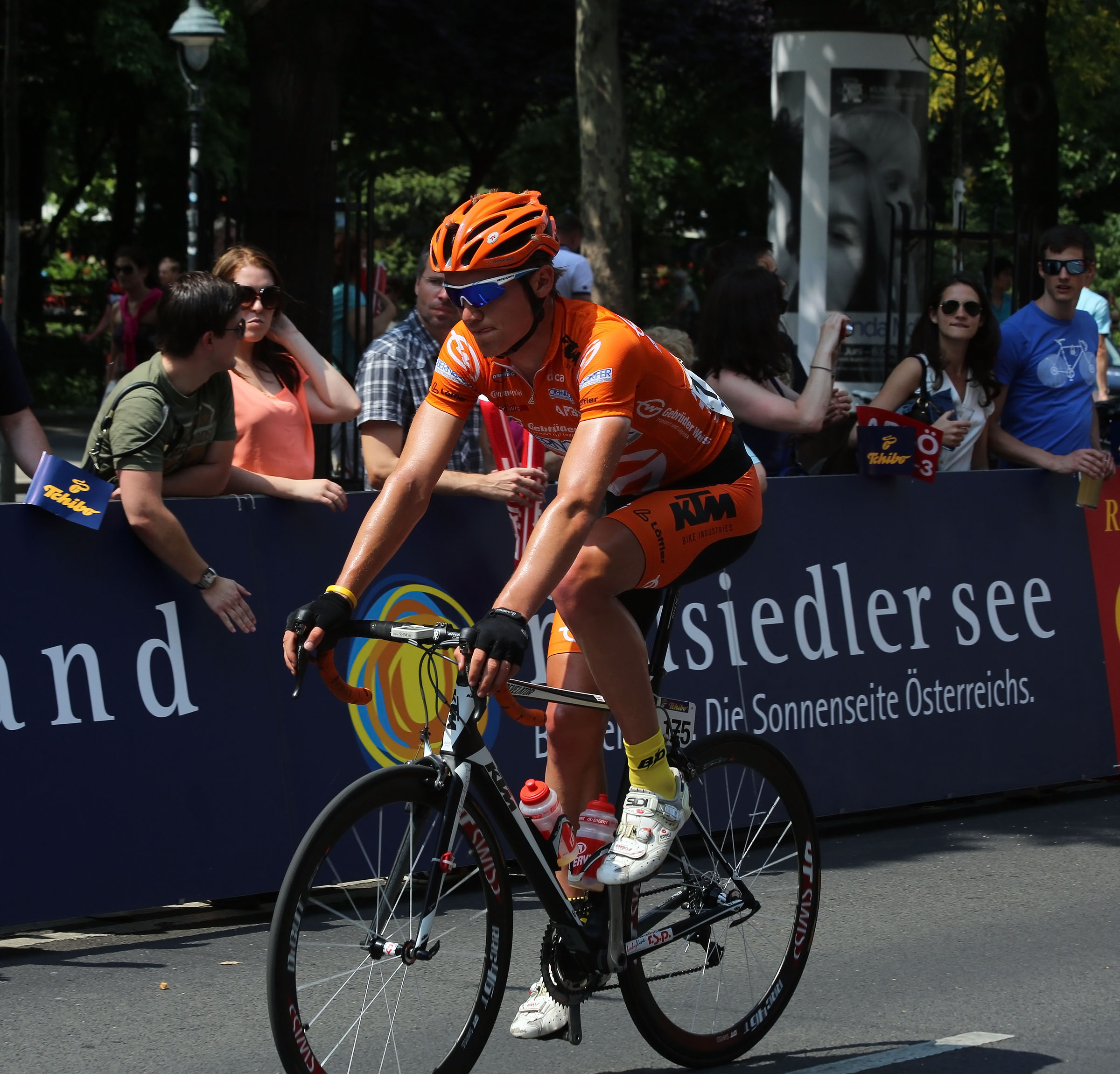 Maximilian Kuen after finishing the final stage of the Tour of Austria in Vienna, Austria.